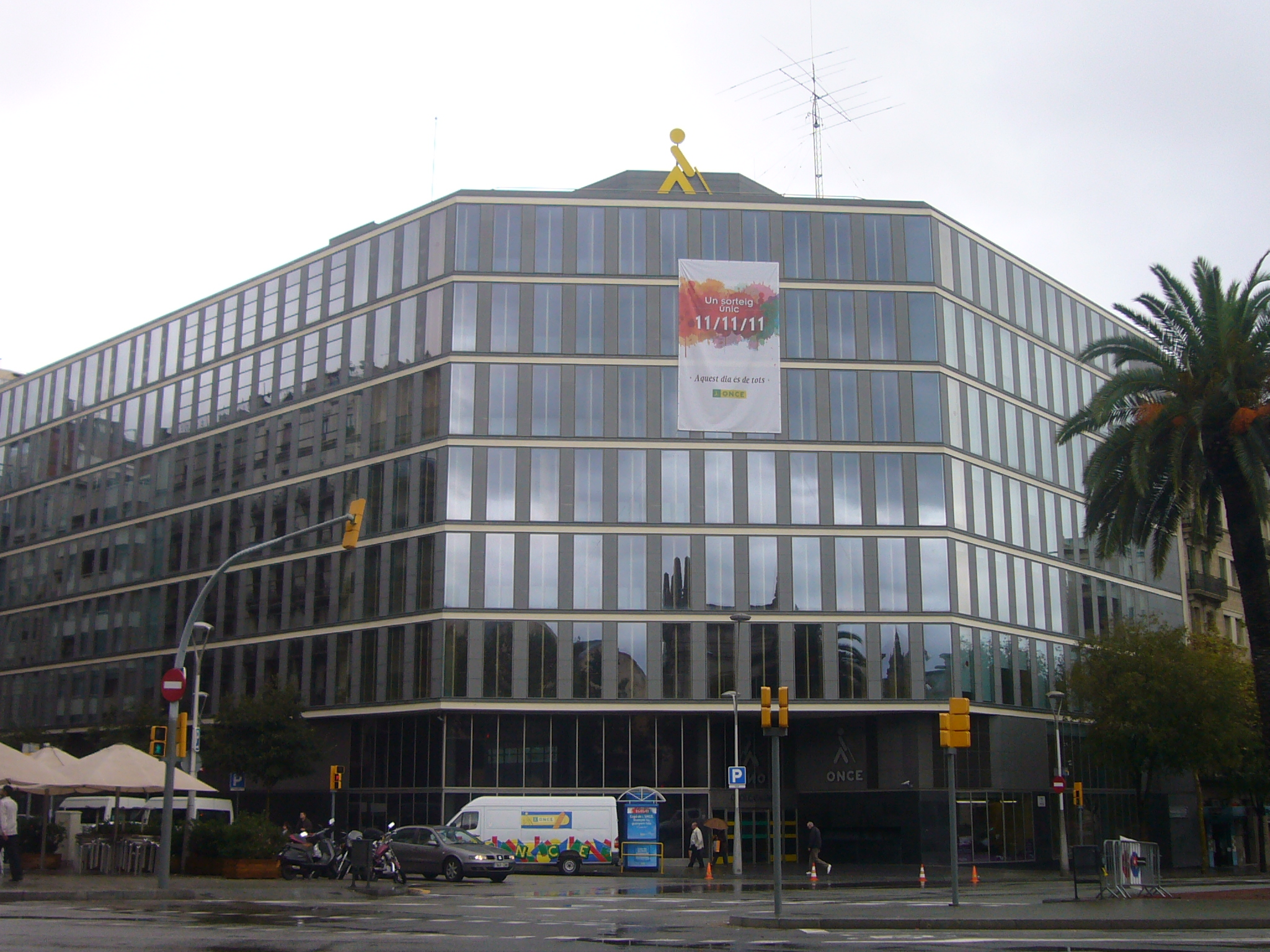 Building of ONCE at l'avinguda Paral·lel, Barcelona